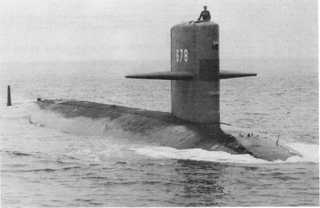 Archerfish (SSN-678), 14 September 1971, off the east coast of the United States. (USN 1194880)